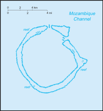 Map of the atoll Bassas da India in the Indian Ocean.